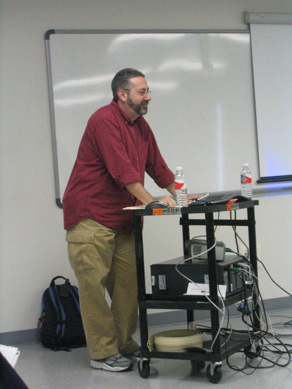 Photo of Warren Spector.